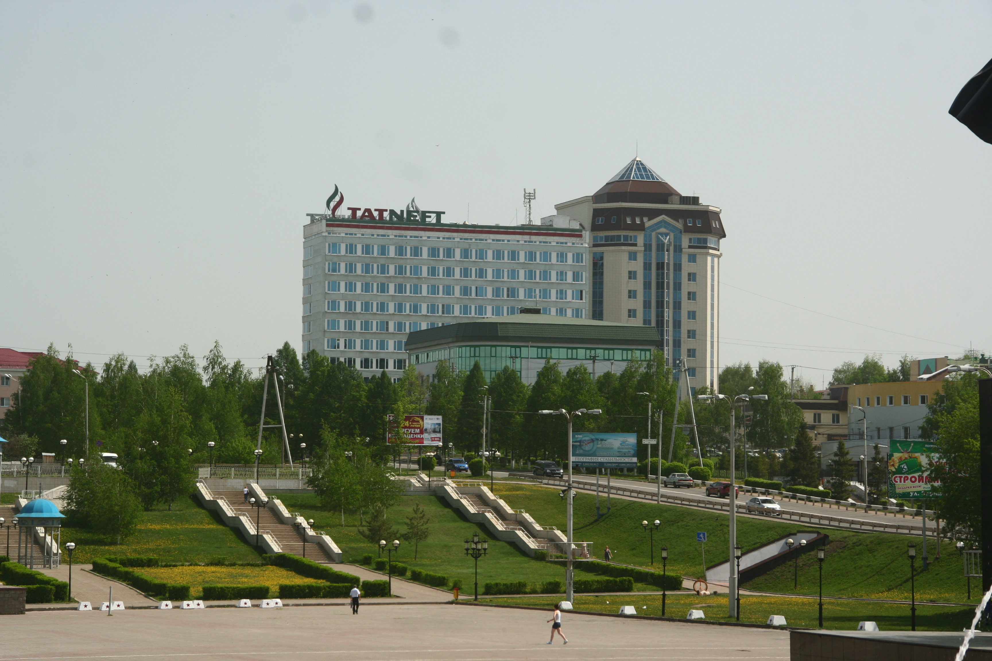 Headquater of Tatneft in Almetievsk (2009-2010)